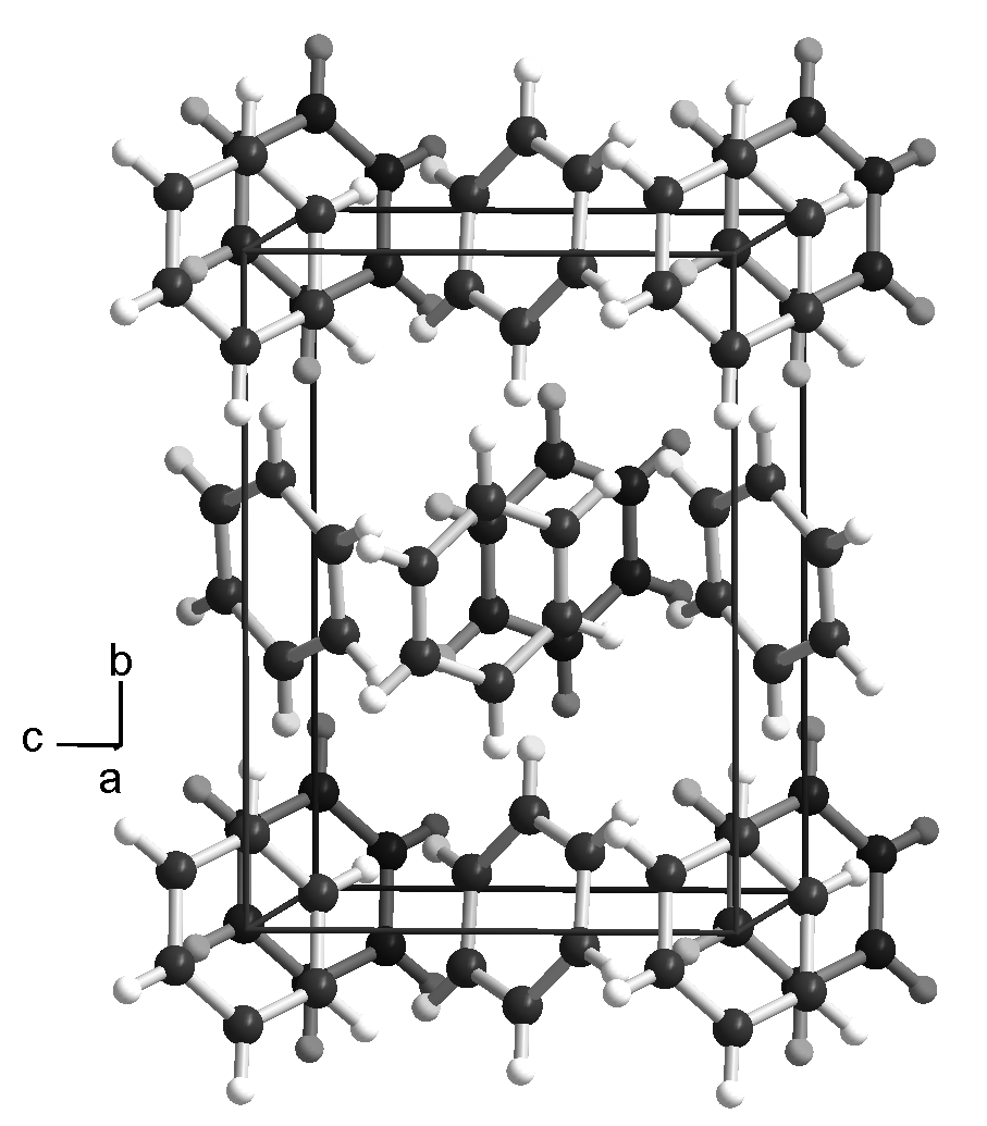 Crystal structure of orthorhombic benzene-I. Created using Diamond 4. Structure data from Katrusiak, Andrzej; Podsiad/lo, Marcin; Budzianowski, Armand Association CH···p and No van der Waals Contacts at the Lowest Limits of Crystalline Benzene I and II Stability Regions† Crystal Growth & Design, 10, 3461 (2010)